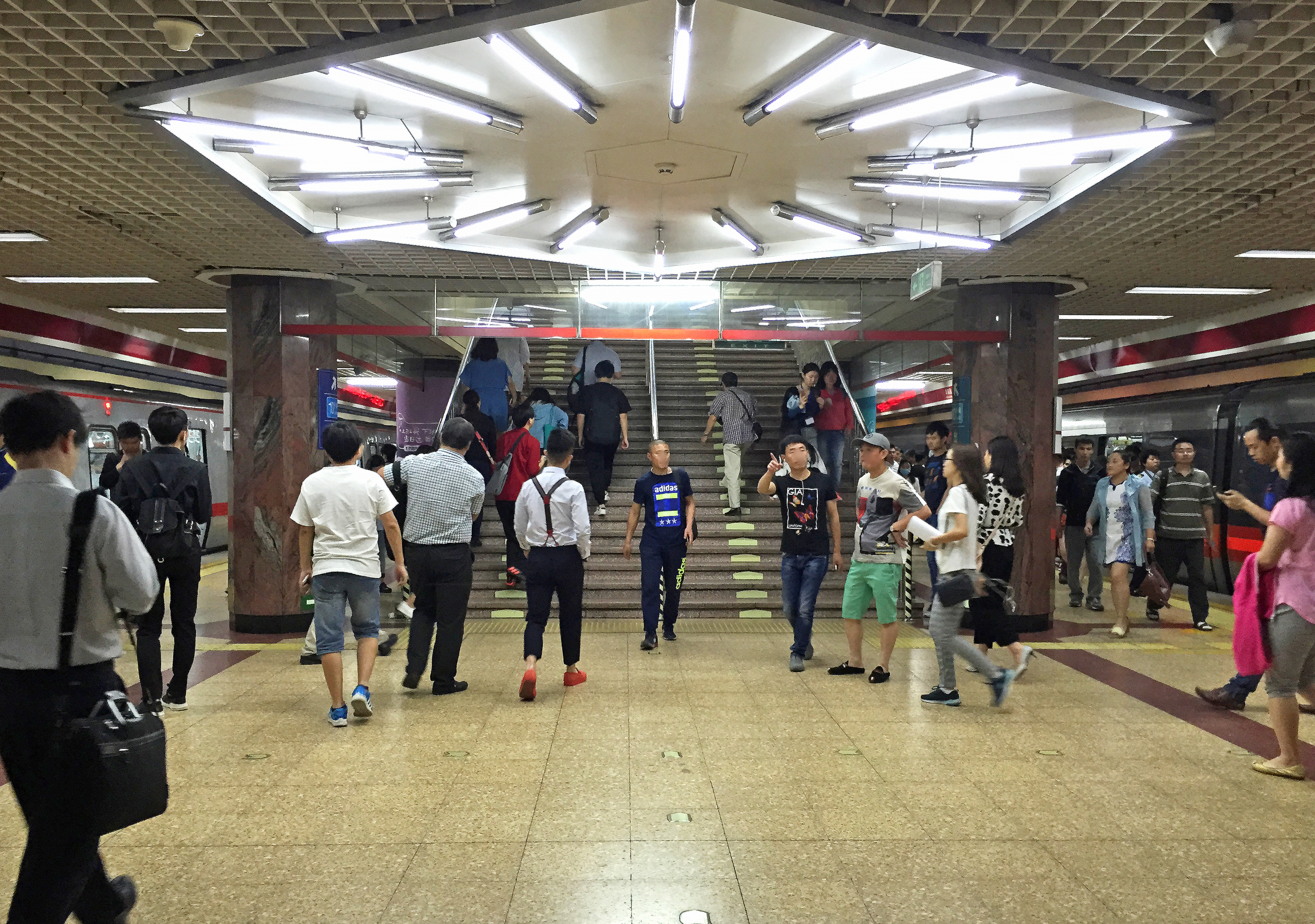 The busiest station on Line 1? Probably.